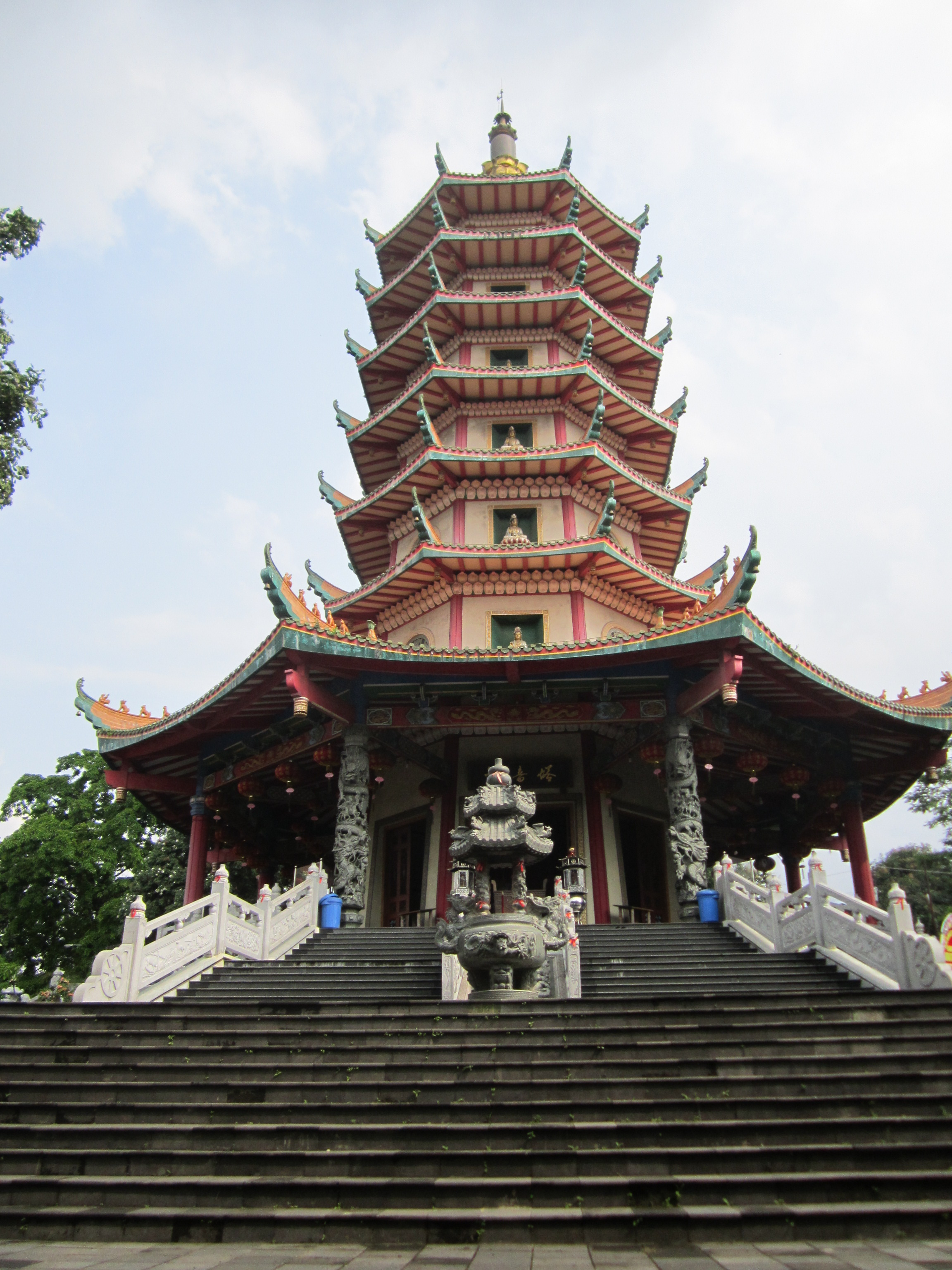 Pagoda Avalokitesvara - Buddhagaya Watugong, the highest pagoda in Indonesia. This pagoda is located in Semarang, Central Java.